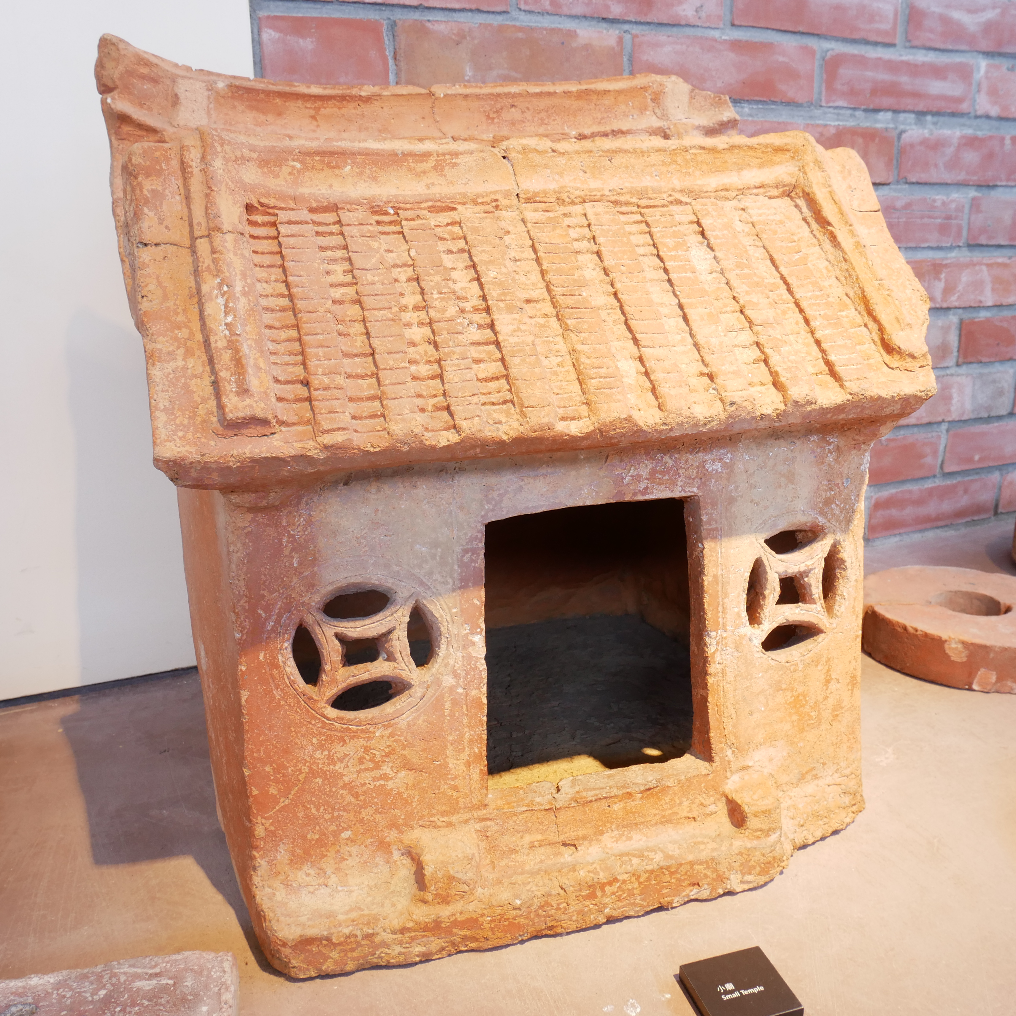 陶製小廟，新北市鶯歌區南靖里